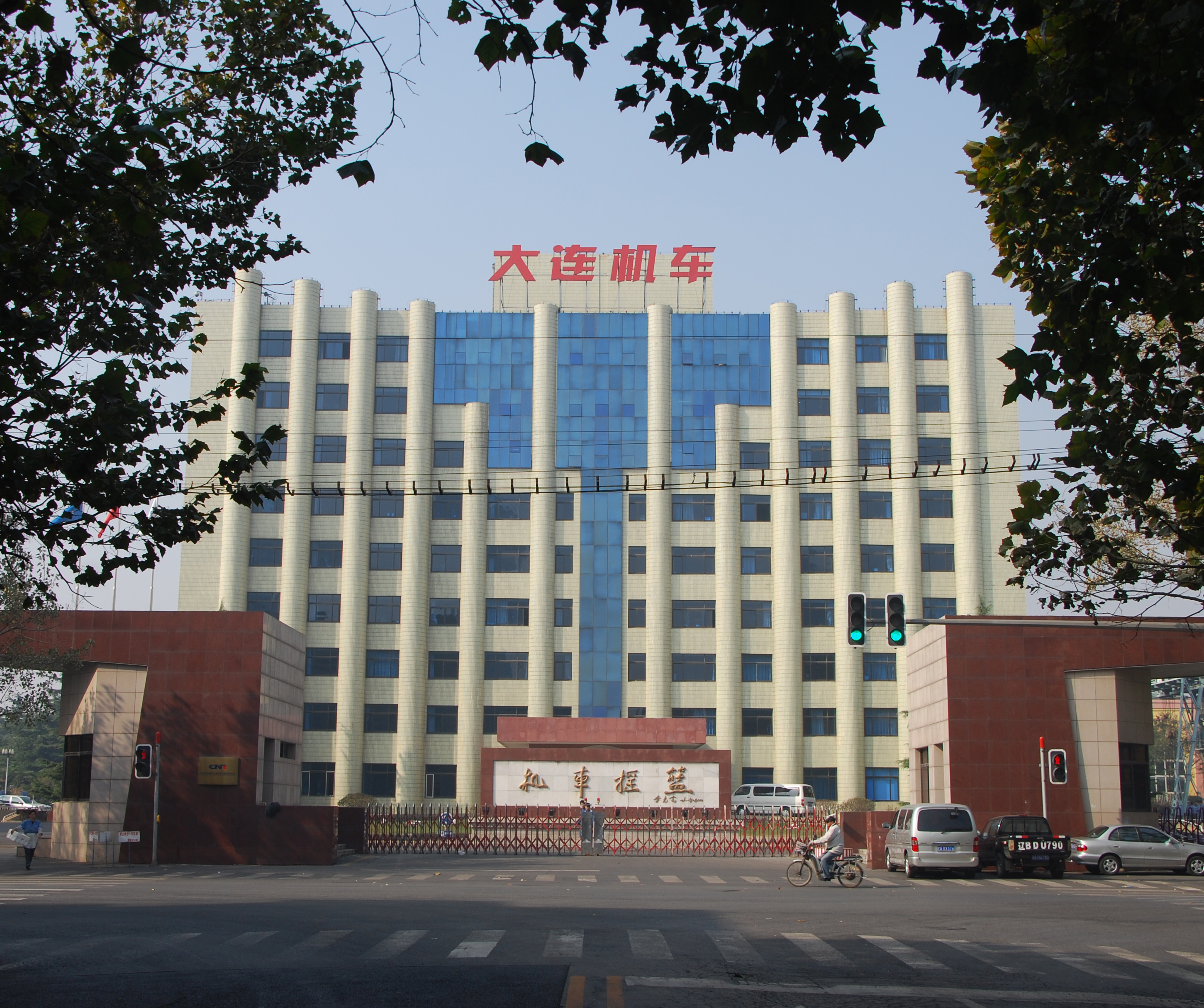 Dalian Locomotive Company - Entrance